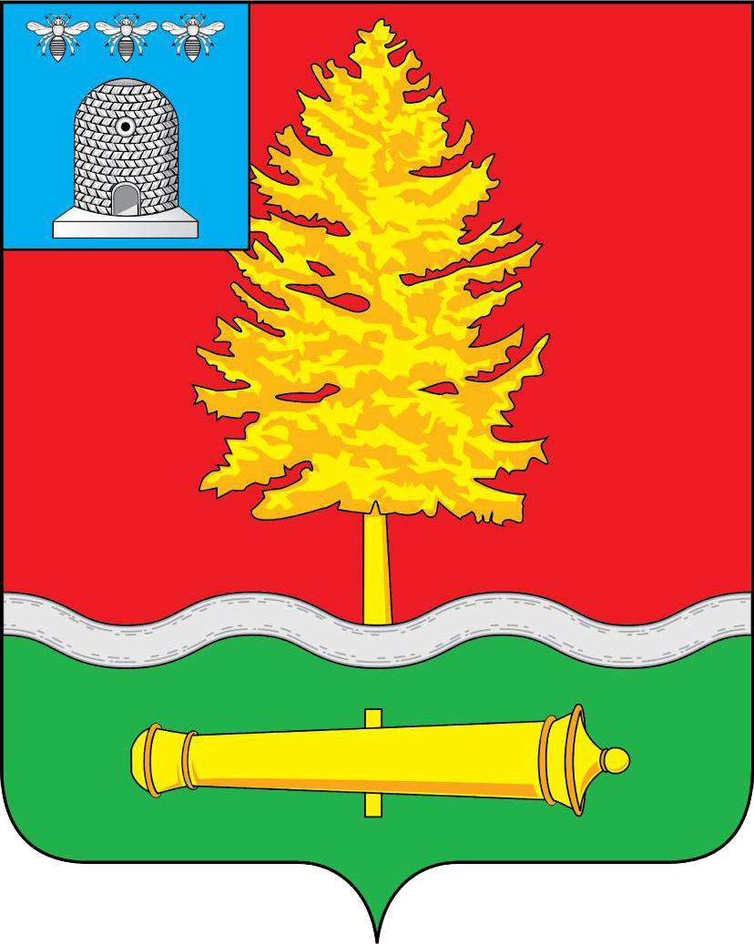 Coat of Arms of Kotovsk (Tambov Oblast) with canton